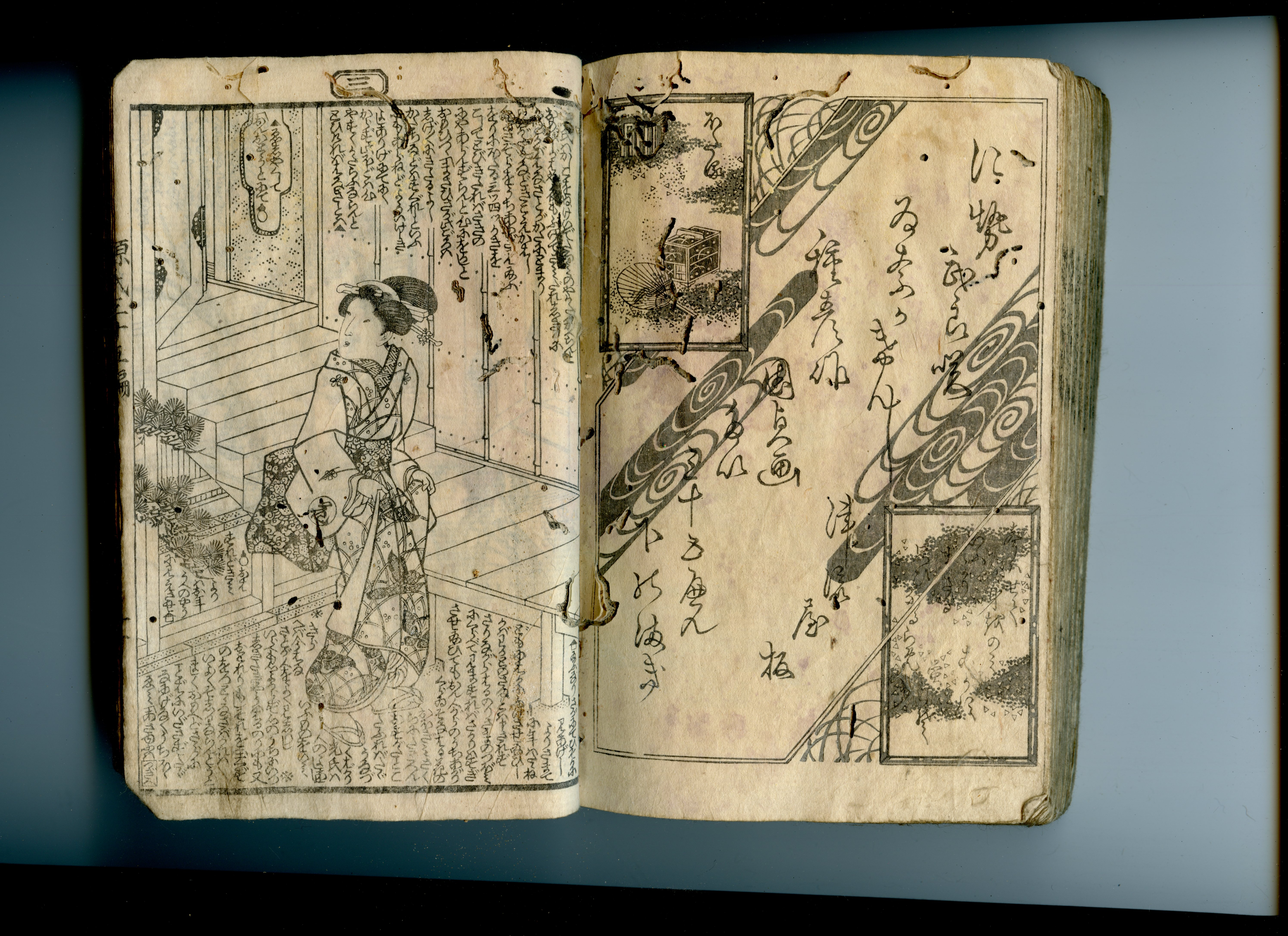 Nise Murasaki inaka Genj - A Country Genji by a Fake Murasaki A gōkan e-hon series, derived/parody/reworking of Genji Monogatari - The Tale of Genji. Published in 38(?) chapters, the series ran from 1829 to 1842. author: Ryūtei Tanehiko（柳亭種彦), 1783-1842 e-hon illustrations by: Utagawa Kunisada